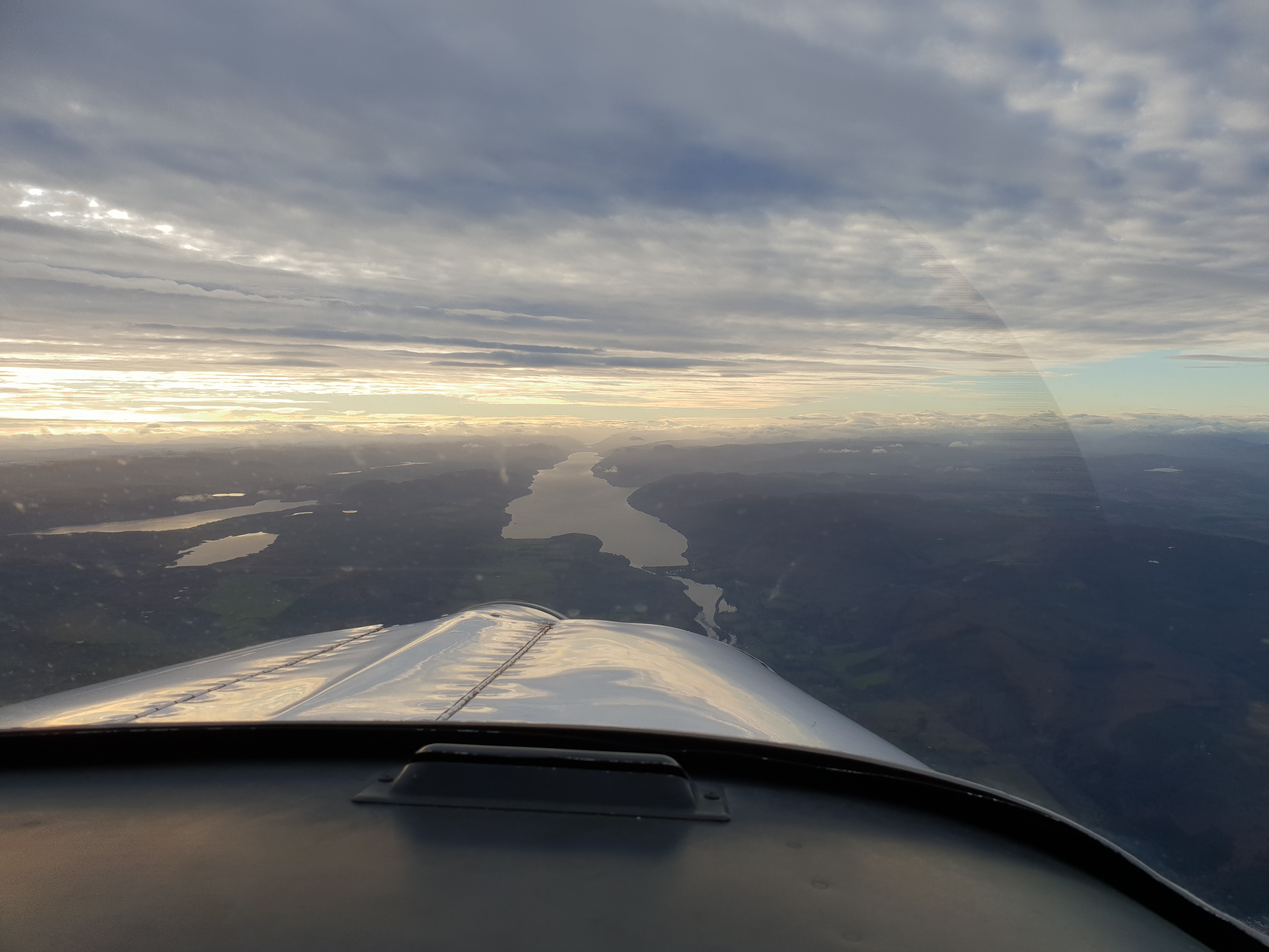 Loch Ness - Highland Aviation